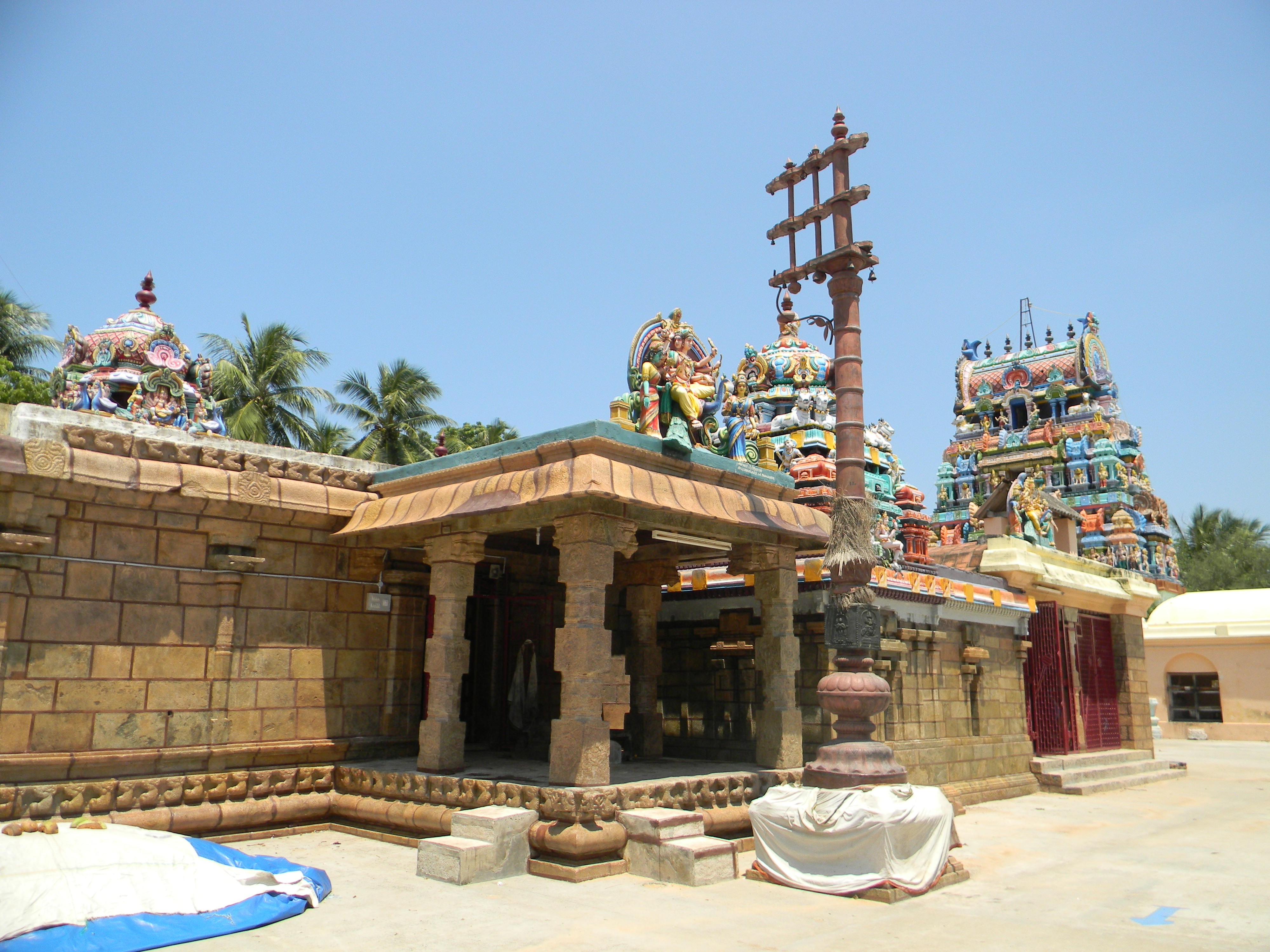 Engan Murugan Temple, with Kodimaram (Temple flag)